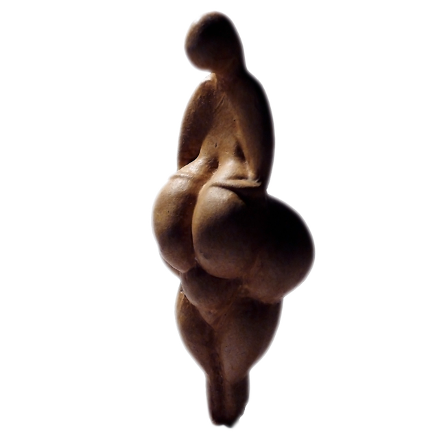 Replica of the Venus of Lespugue, carved from tusk ivory (Gravettian, Upper Paleolithic); France, Musée de L'Homme, Paris